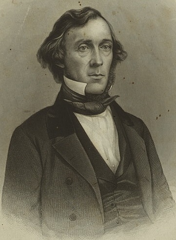 Azariah Boody, New York businessman and legislator